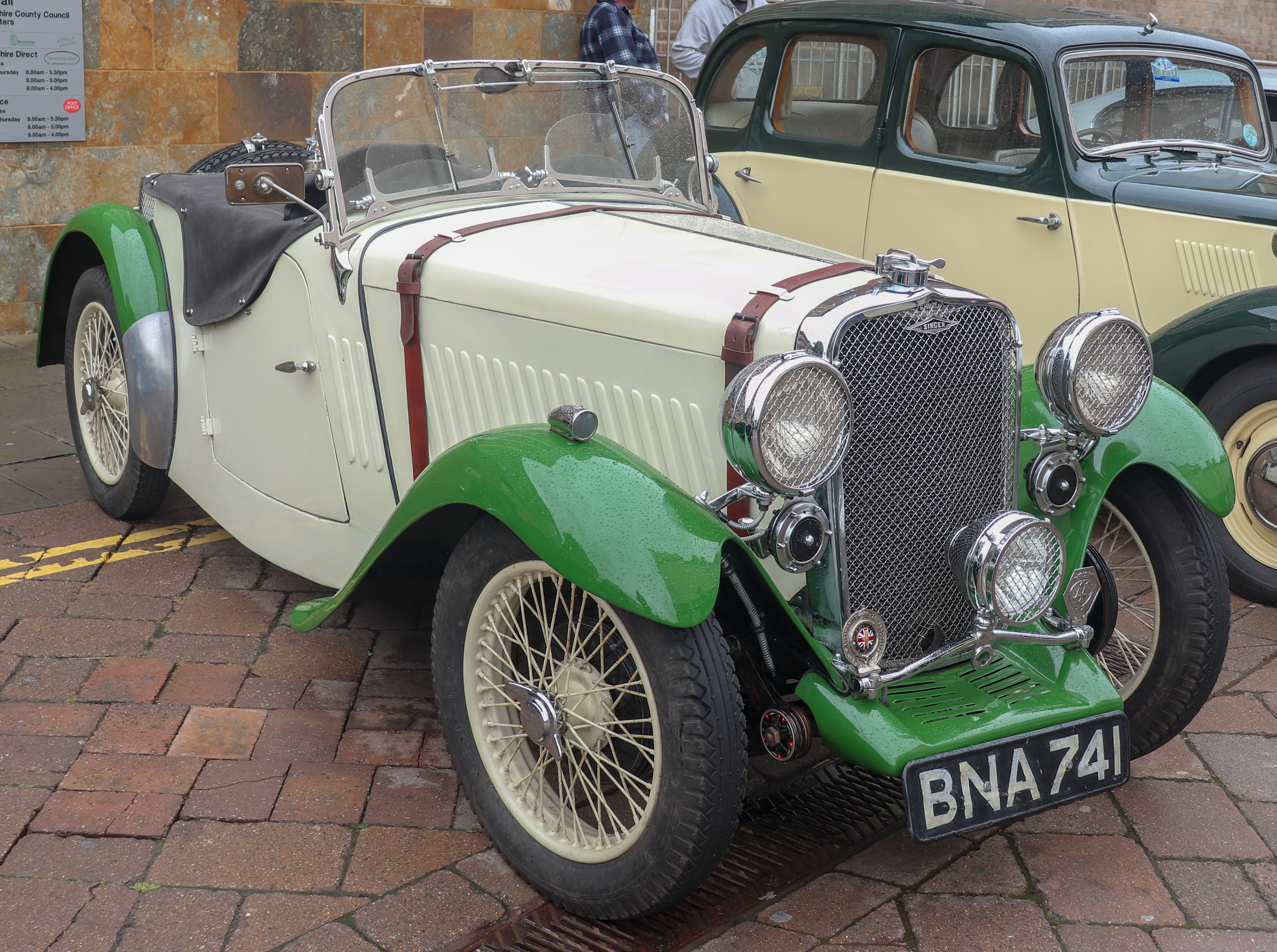 1933 Singer Nine Sports Taken at the 2018 Warwick Classic Car Show